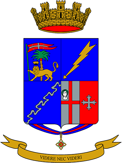 Coat of Arms of the 3° Paratrooper (Paracadutisti) Battalion; Italian Army.